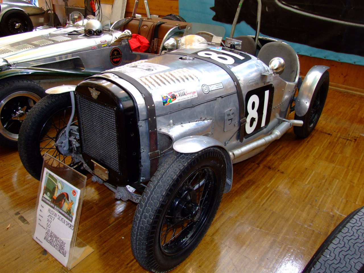 Austin Seven Sports 747ccm 50PS 1927